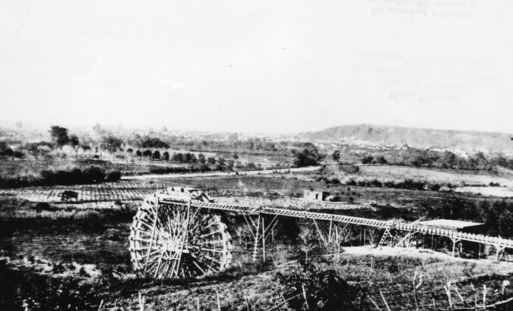 A water wheel on the Zanja Madre. It took water from the Zanja Madre for the old brick reservoir that stood in the middle of what is now the Plaza at the end of Olvera Street. The reservoir was built in 1858.